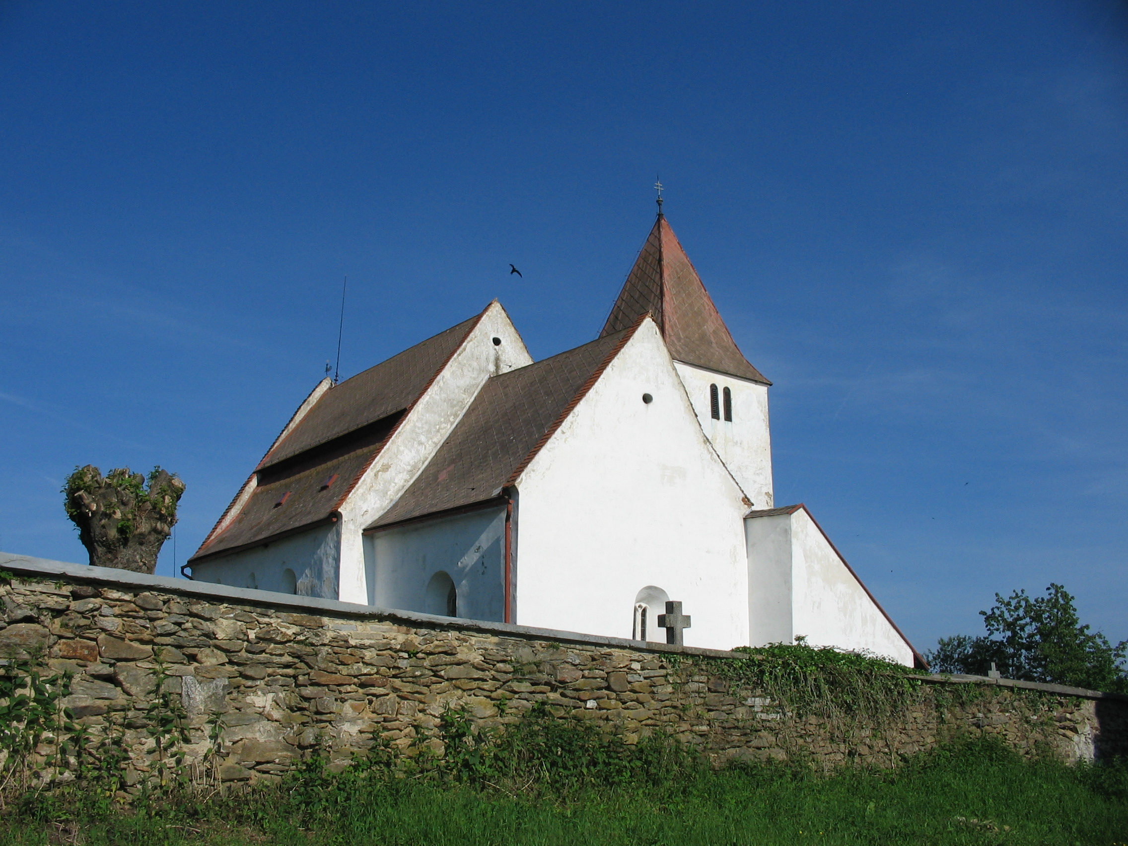 Saints Peter and Paul church in Albrechtice, Klatovy District, Czech Republic